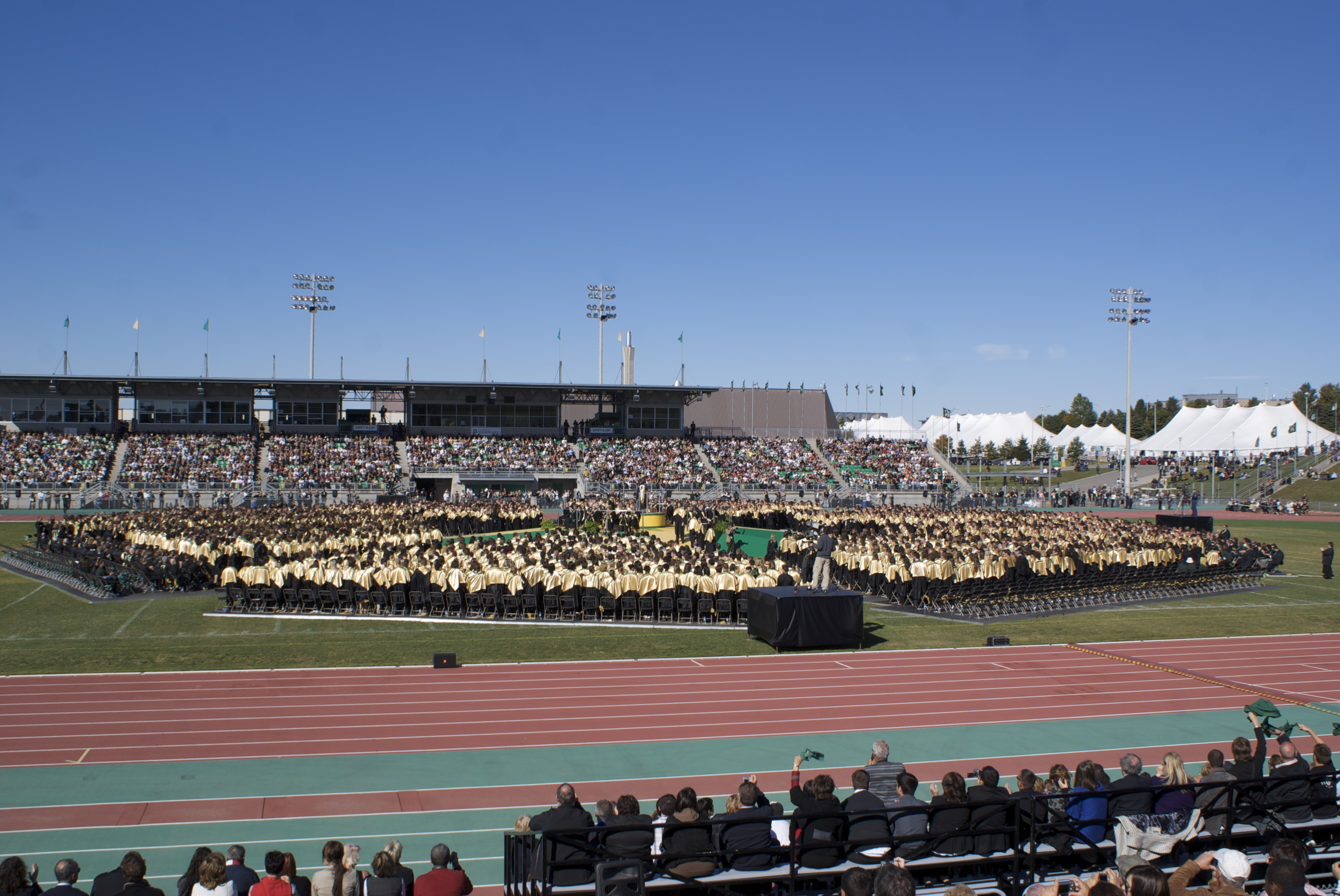 2009 graduation ceremony at UdeS